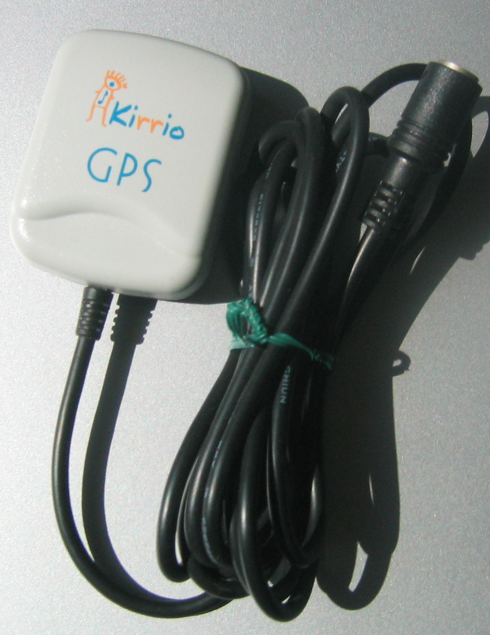 a GPS receiver (GPS mouse)